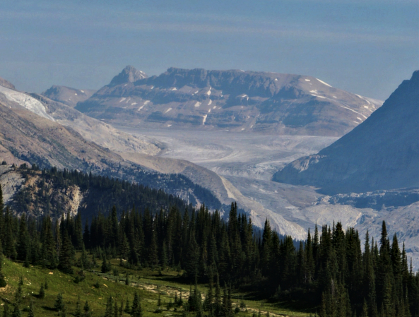 Mount Rhondda seen from Iceline Trail, Yoho Park, Canada